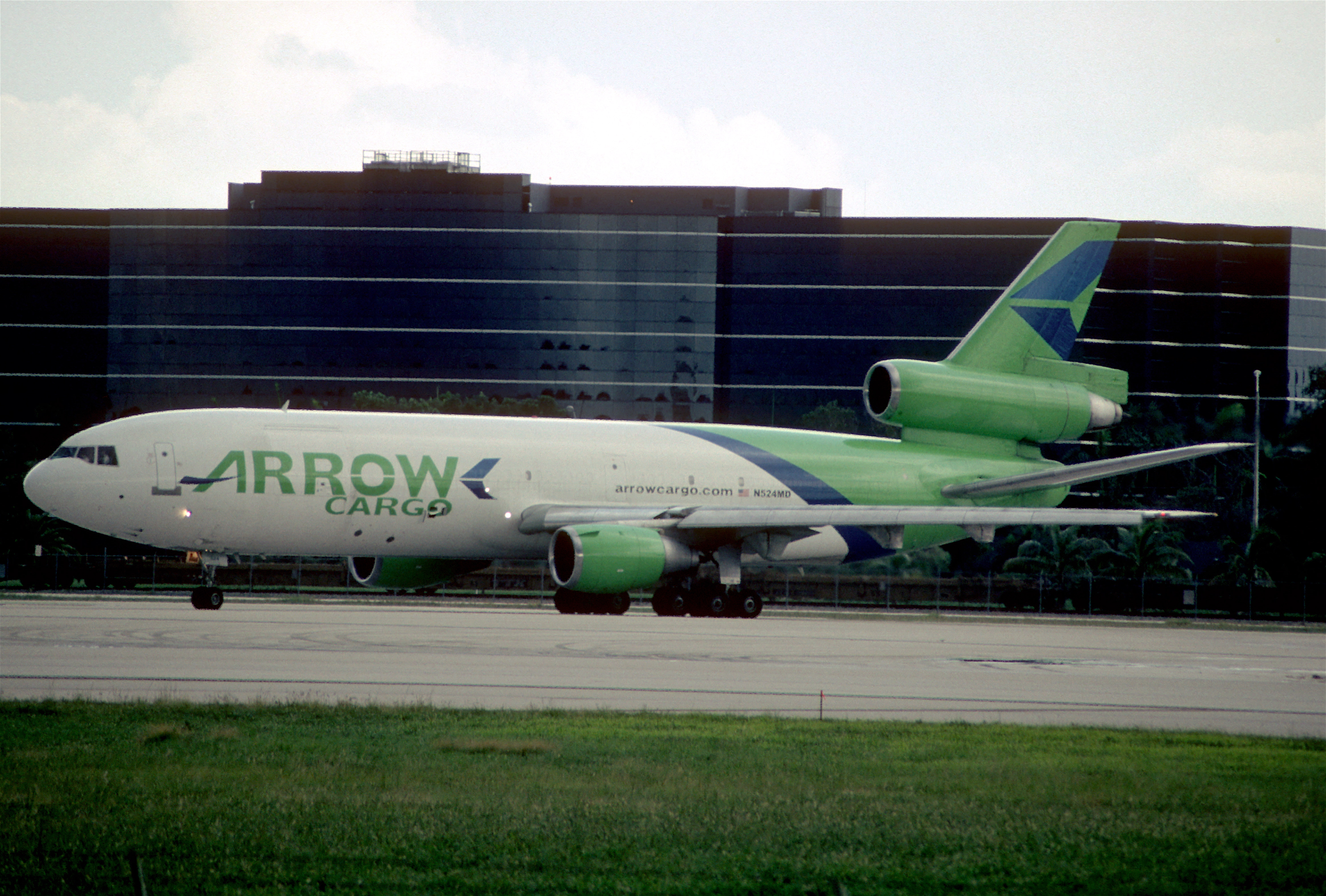 374be - Arrow Air DC-10-30F; N524MD@MIA;31.08.2005